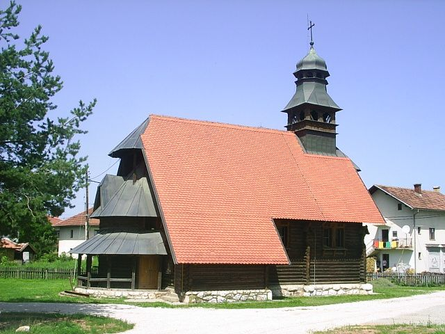 A wooden church in Pale, BiH